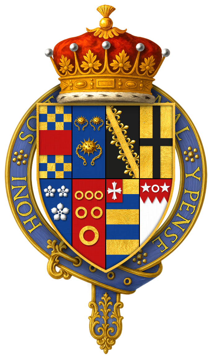 Coat of arms of Sir Henry Clifford, 1st Earl of Cumberland, KG Cumberland's stall plate remains installed within St. George's Chapel. The arms thereon are, quarterly of eight: 1st: Chequy, or and azure, a fess gules (Clifford) 2nd: Azure, three horse barnacles(?) or (this is a charge I have not encountered before in this exact state) 3rd: Sable, a bend fleury, counter-fleury or (Bromflete) 4th: Or, a cross sable (Vesci) 5th: Azure, three cinquefoils argent (Bardolph) 6th: Gules, six annulets, three, two, and one, or (Vipont) 7th: Barry of six, or and azure, on a canton gules a cross fleury argent (Aton) 8th: Argent, on a chief engrailed gules, an annulet between two mullets of the first (St John)